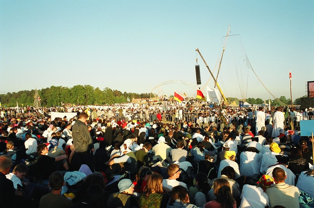 VIII National Youth Meeting - Lednica 2004